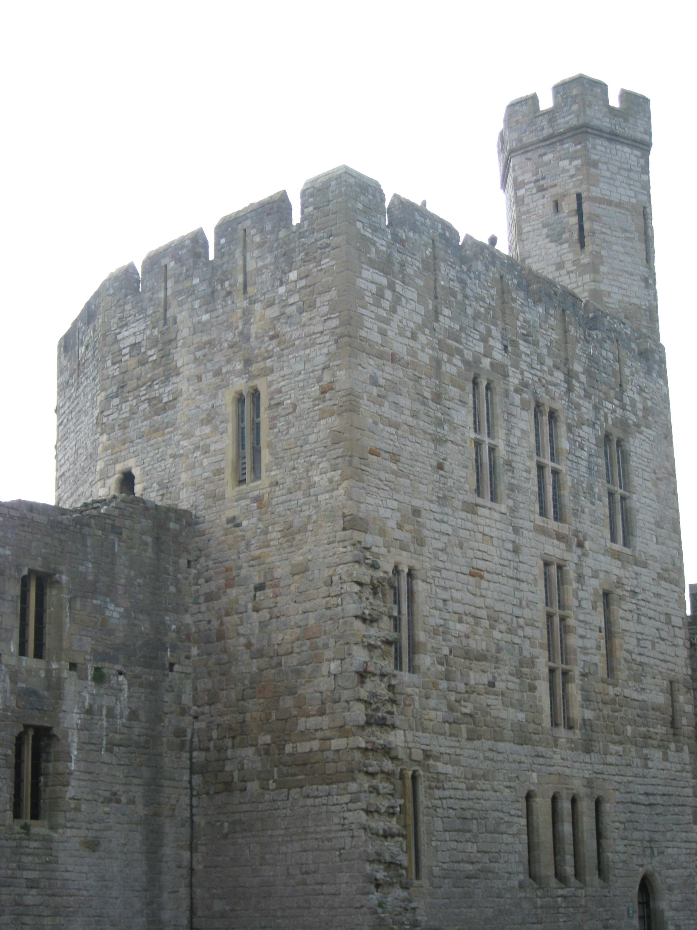 Caernarfon Castle:The Queen's Tower